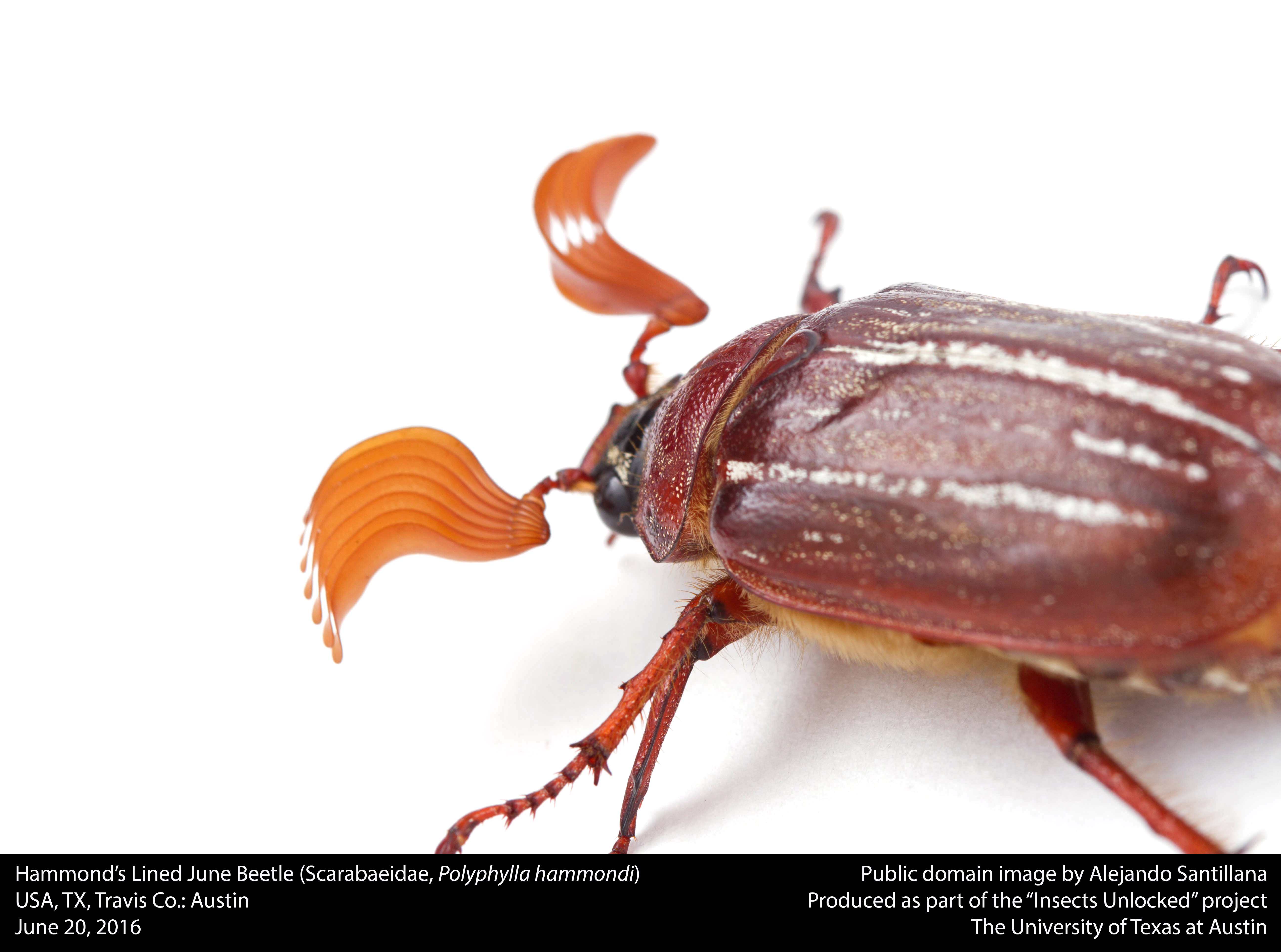 USA, TX, Travis Co: Austin 20-vi-2016